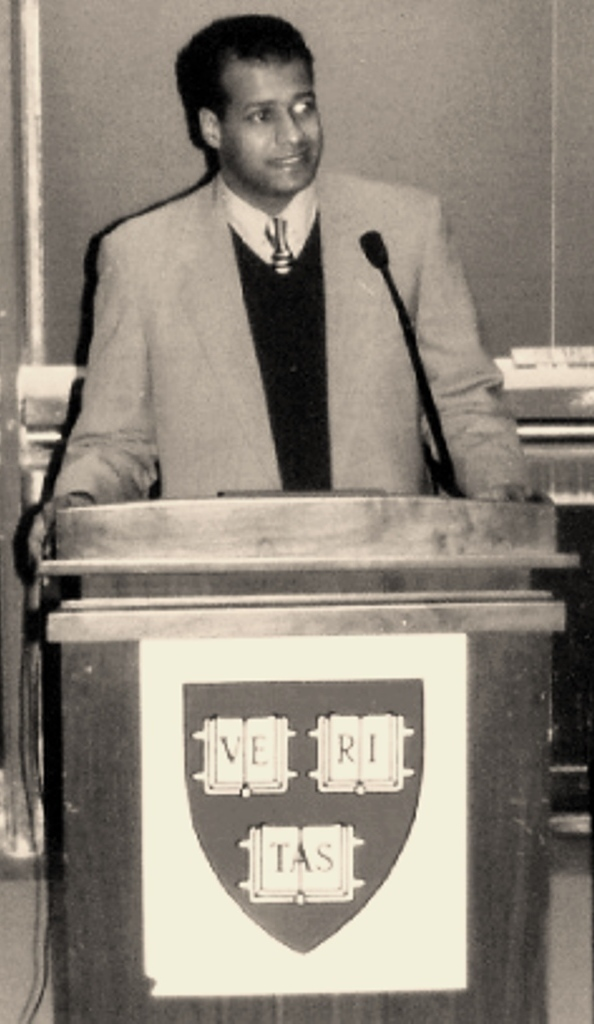 Mohamed Mahmoud Ould Mohamedou public talk at Harvard University circa 1997